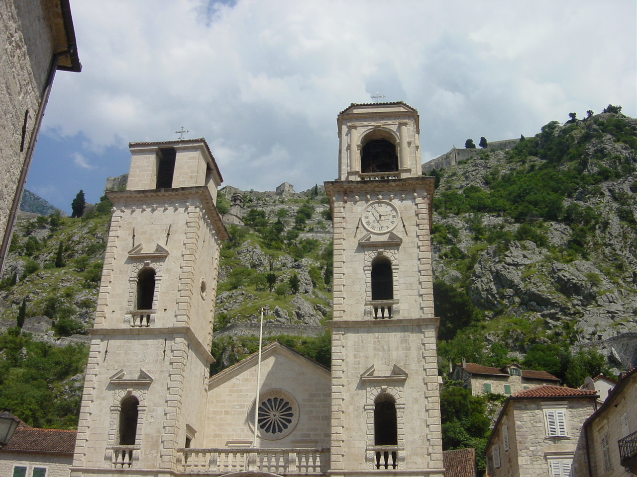 Kotor Cathedral in Montenegro.